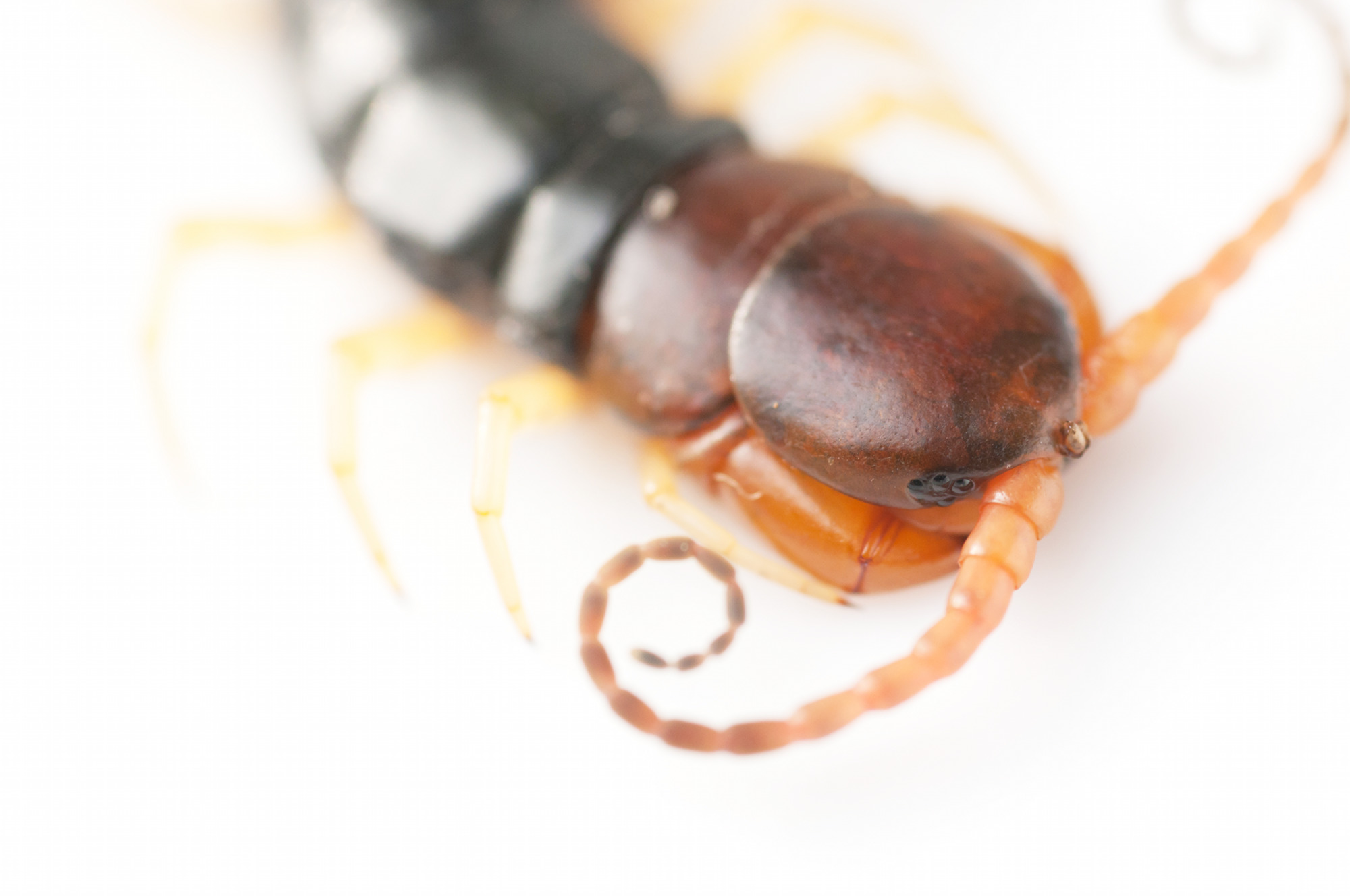 the head of Scolopendra subspinipes mutilans